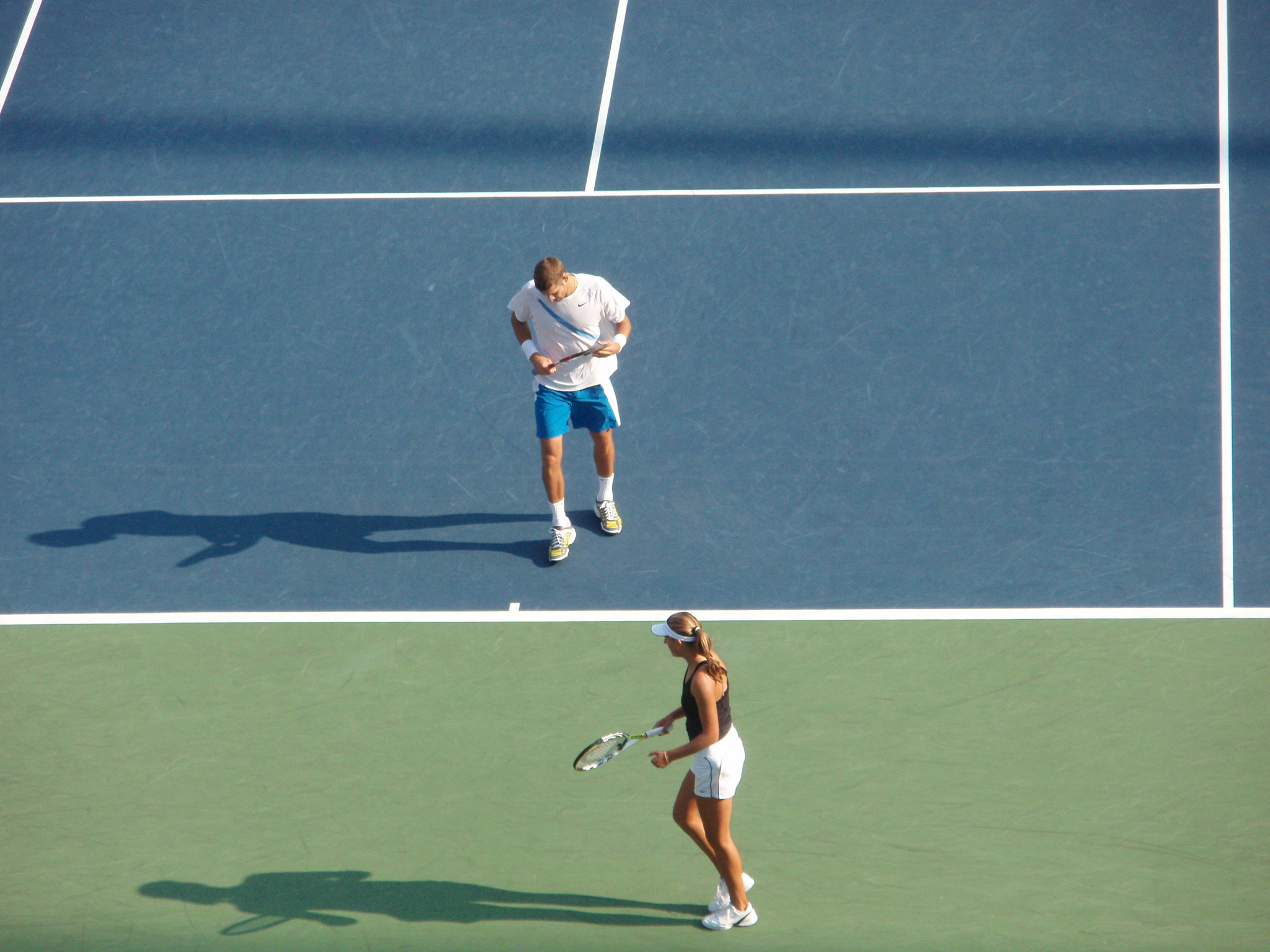 Max Mirnyi With Mixed Doubles Partner Victoria Azarenka At The 2007 US Open